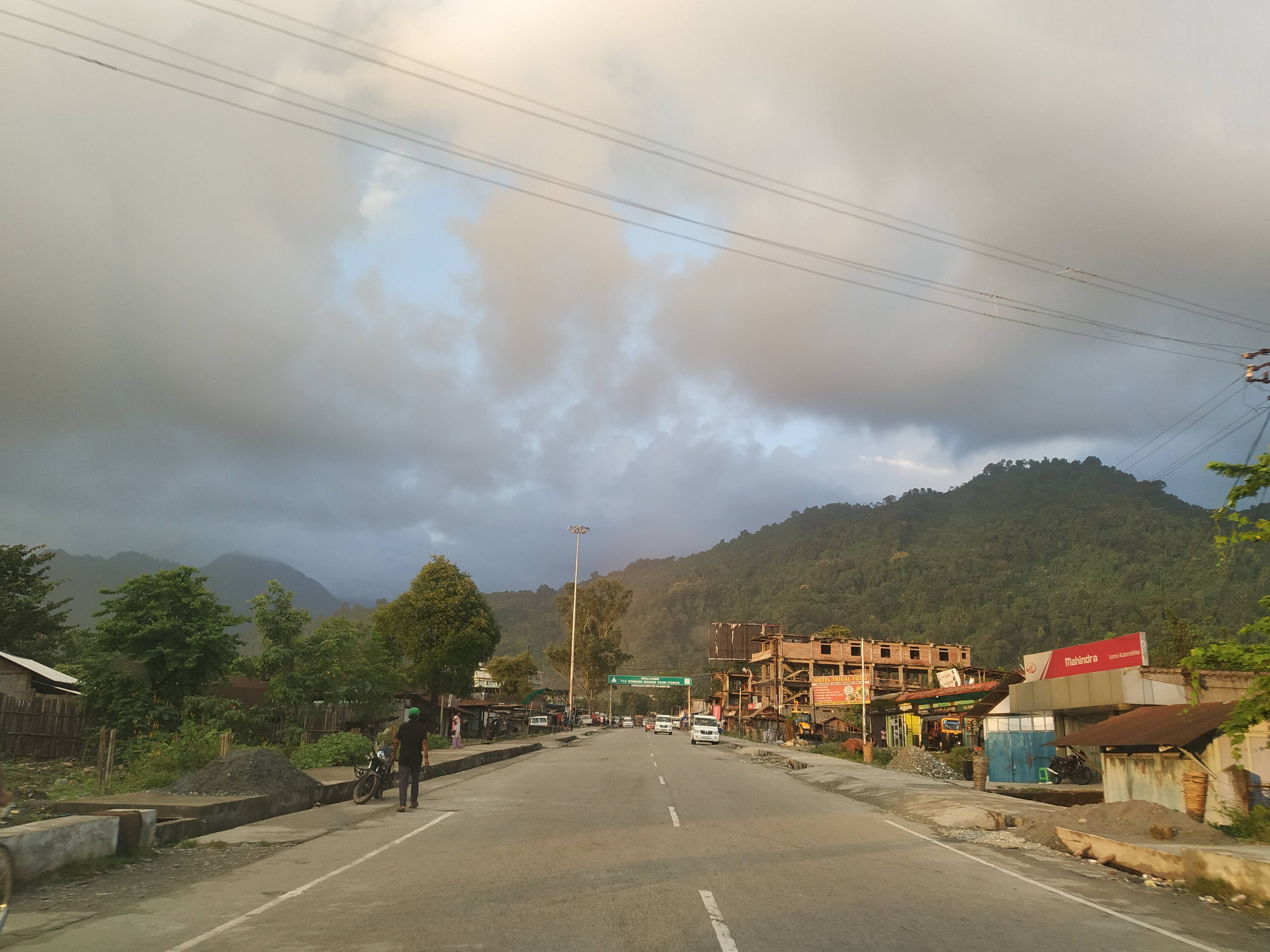 Roing Entrance (Southern side)